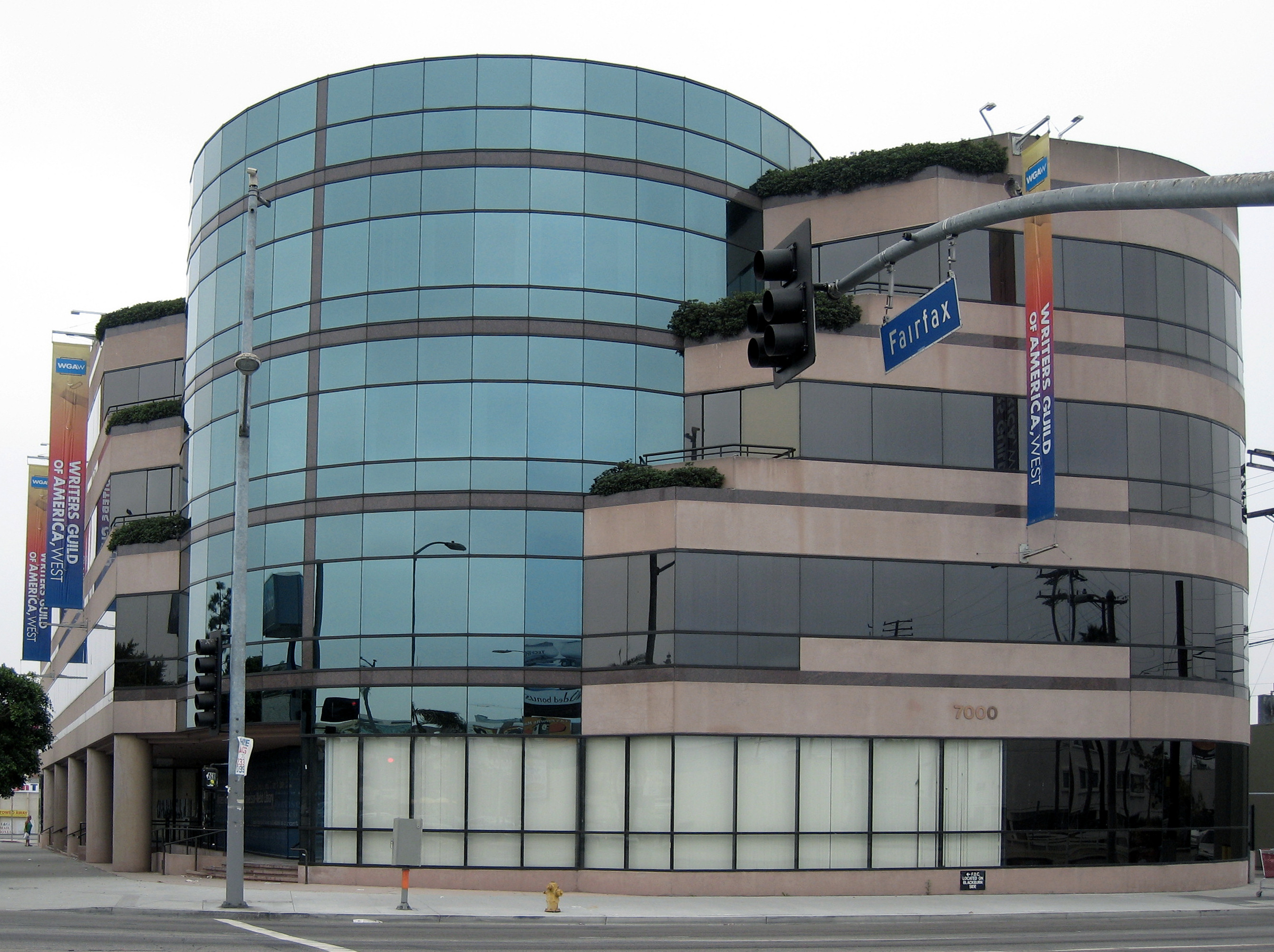 The Writers Guild West building in Los Angeles, California